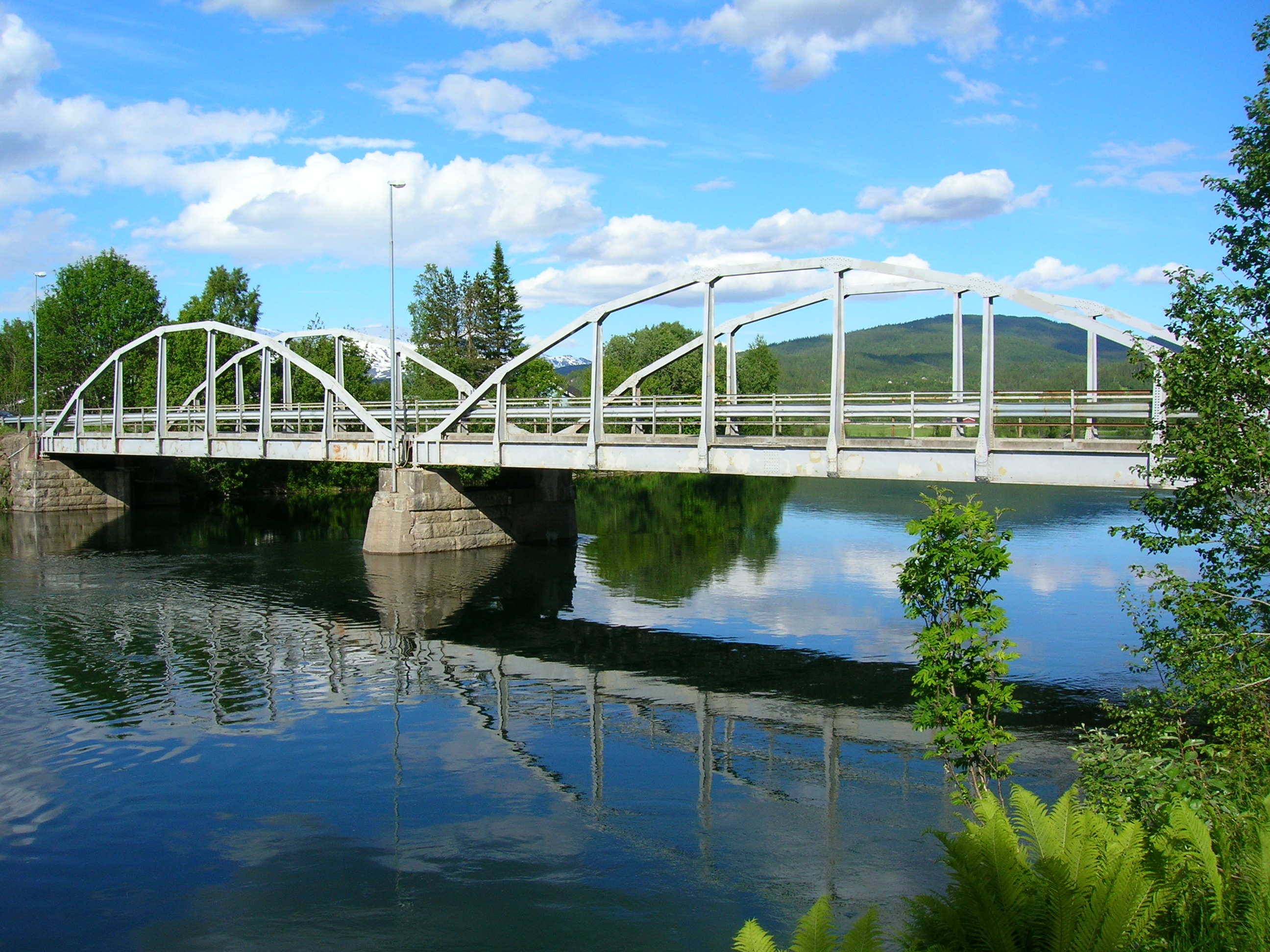 Bridge on European route 6 (E6) over Langvassåga, close to its meeting point with the river Ranelva in Rana municipality, Nordland, Norway. Photo June 22, 2007 with a Nikon Coolpix 5600 5,1 Megapixel camera.